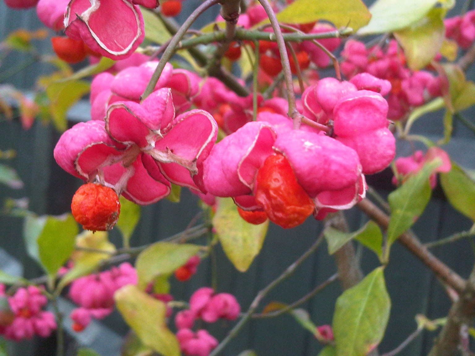 European spindle or common spindle (Euonymus europaeus) fruits at WWT London Wetland Centre, England.